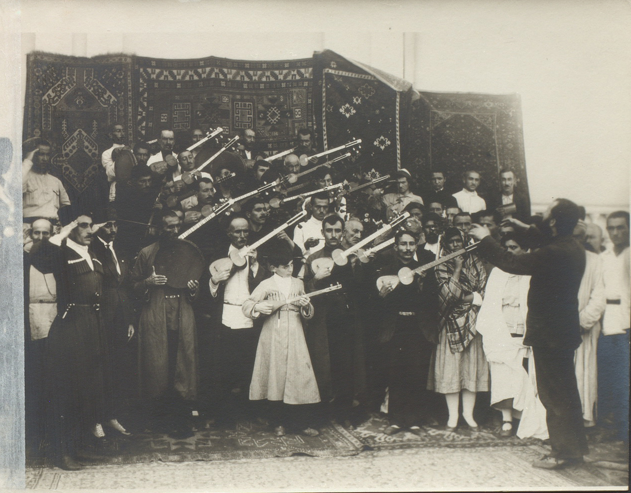 Eastern Orchestra during the First Congress of the Peoples of the East in Baku. There are Karabakh carpets behind the musicians.